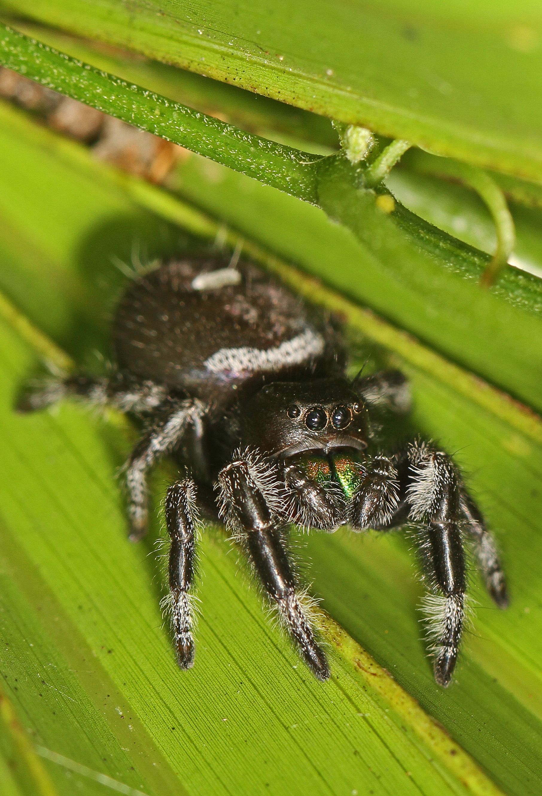 Jumping Spider - Phidippus regius, Okaloacoochee Slough State Forest, Felda, Florida